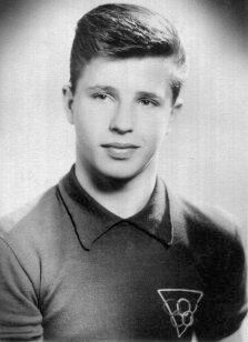 photo of meesgerritsen